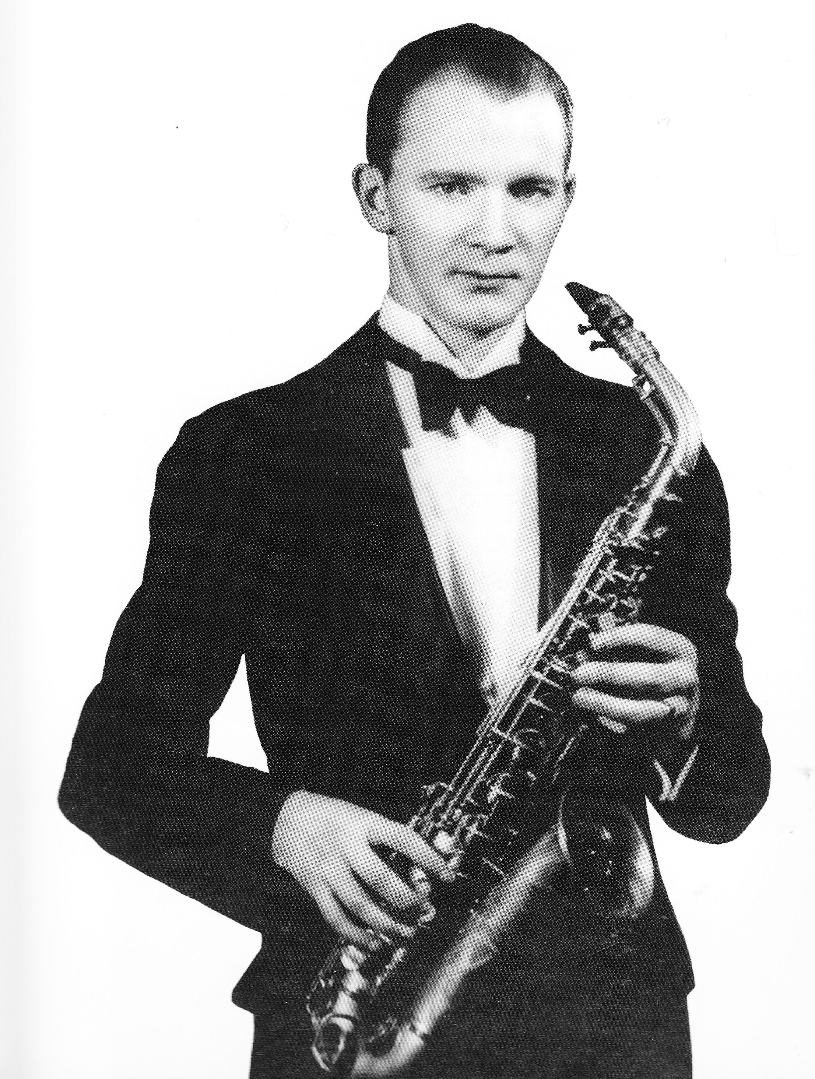 Wilfred Tuomikoski